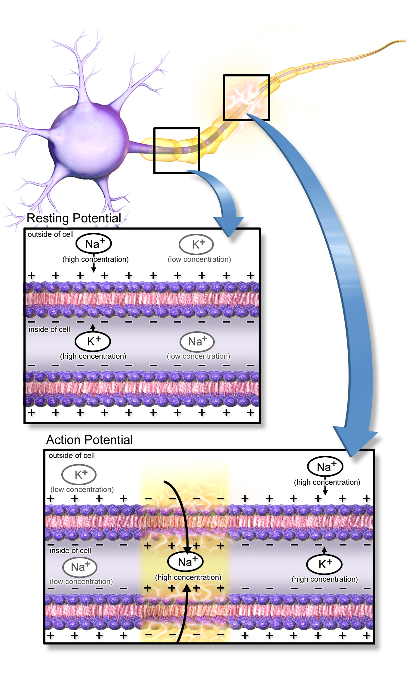 Action Potential. See a full animation of this medical topic.